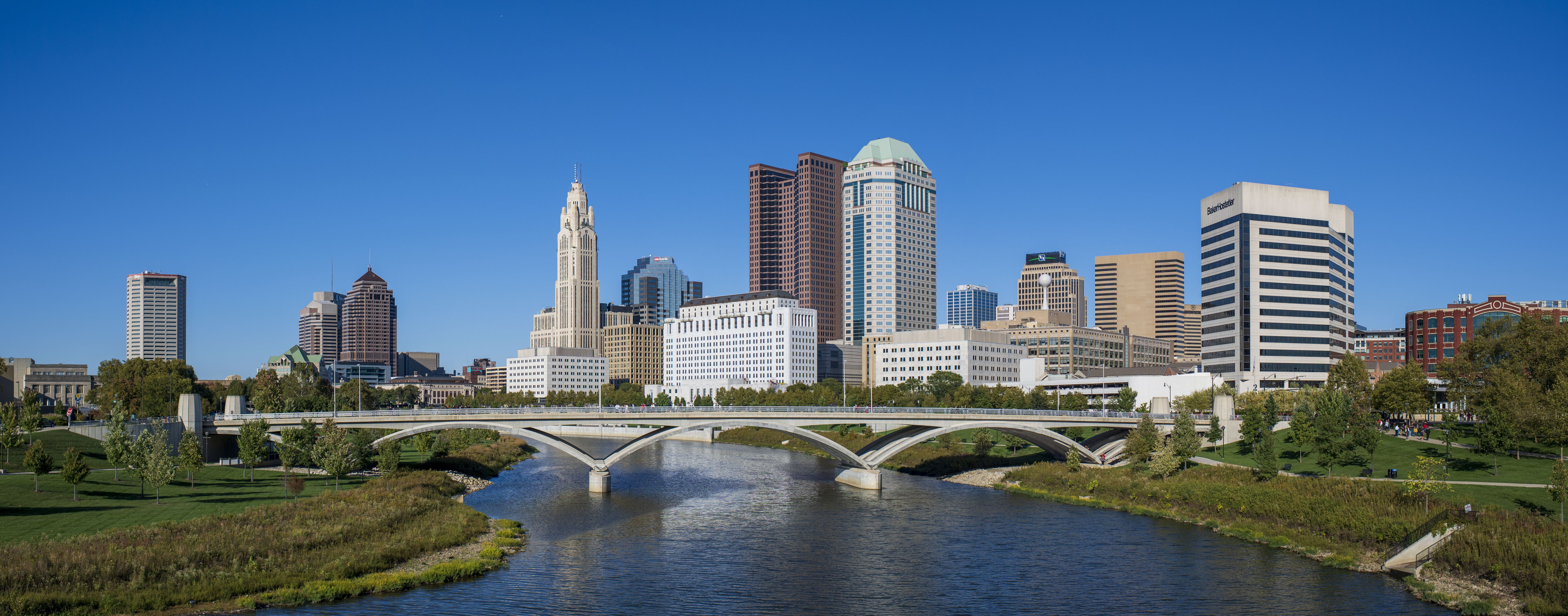 Panorama of downtown Columbus, OH from the Main Street Bridge.